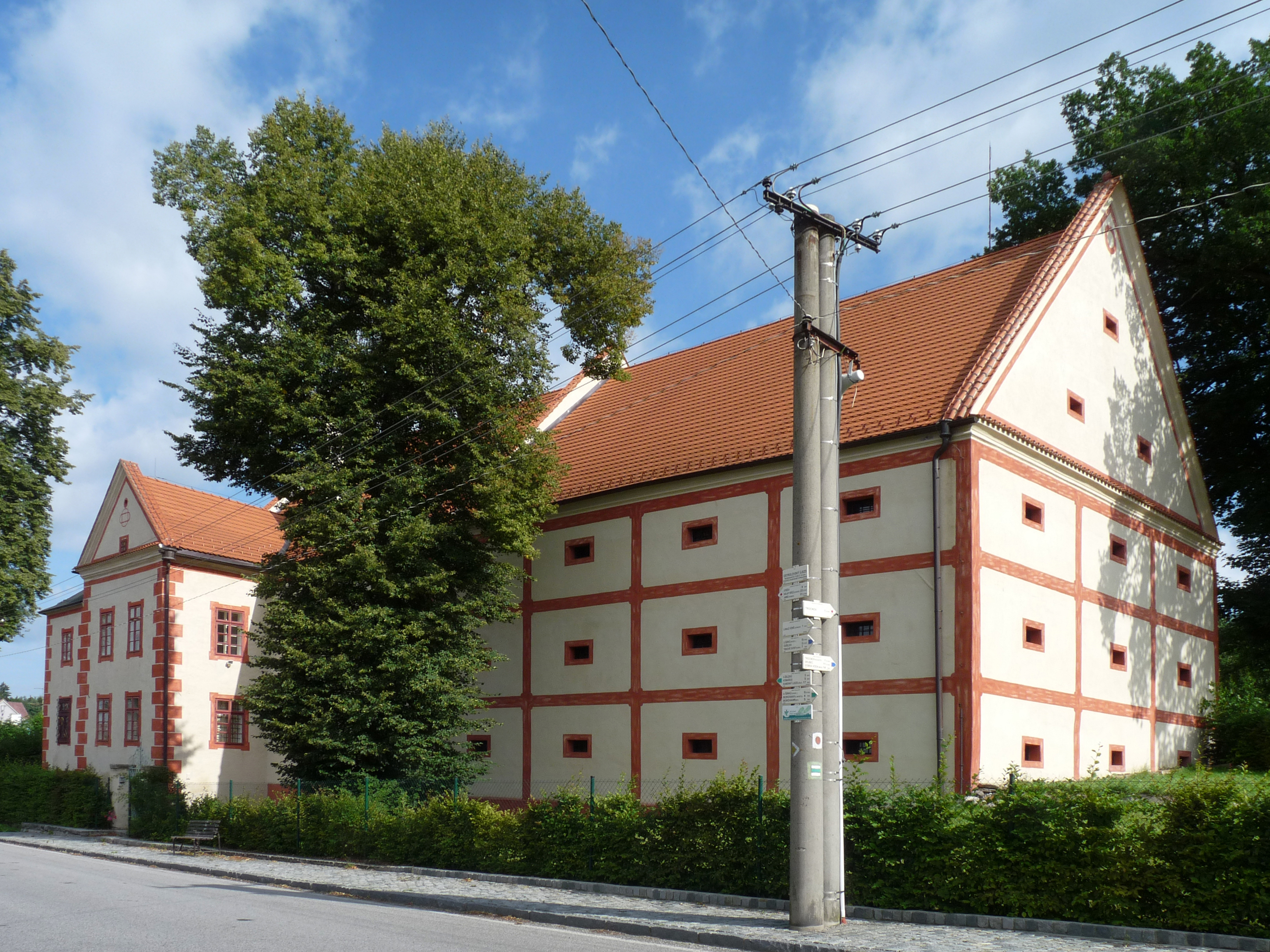 Chateau in the village of Ostrolovský Újezd, České Budějovice District, Czech Republic.